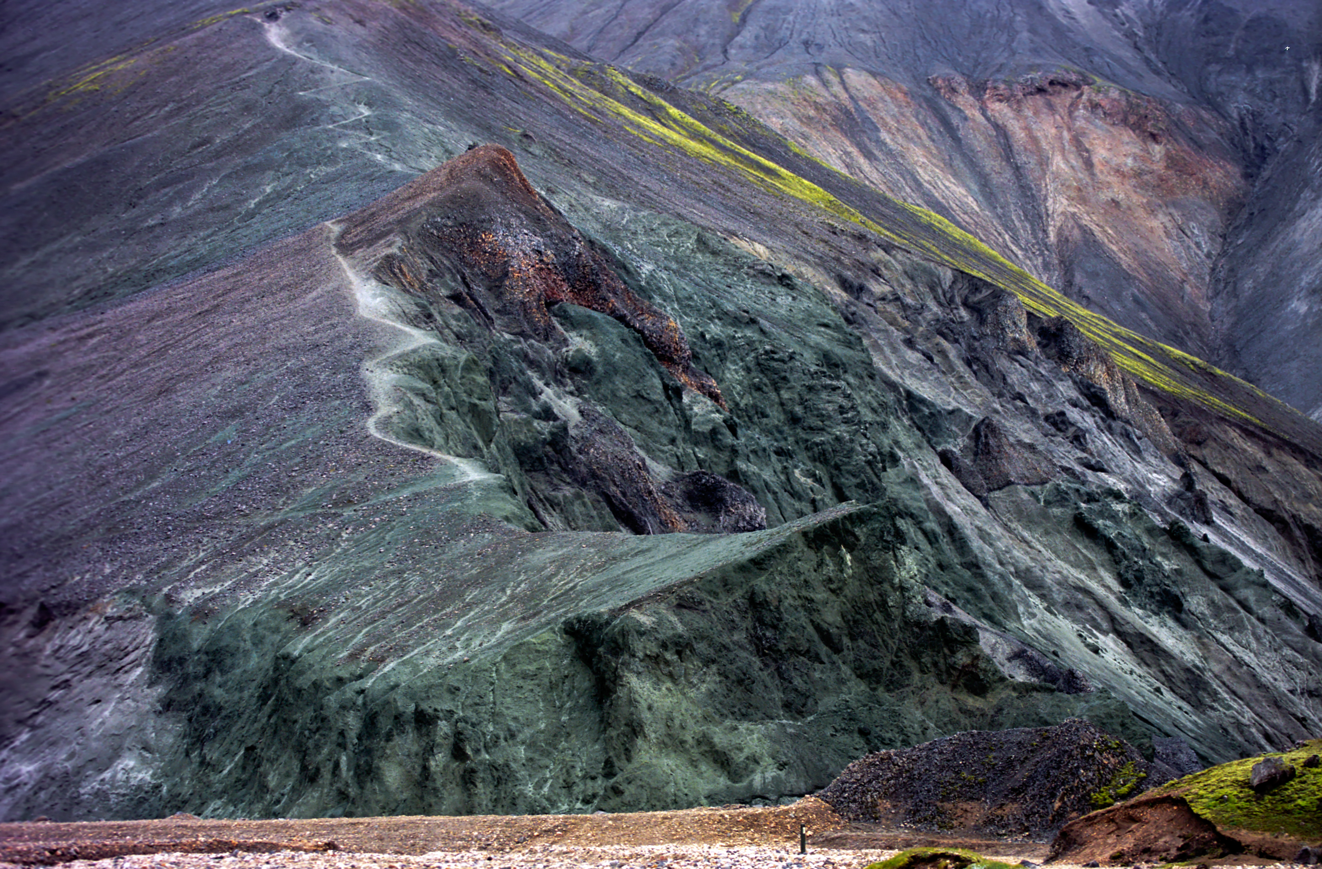 Landmannalaugar, Iceland